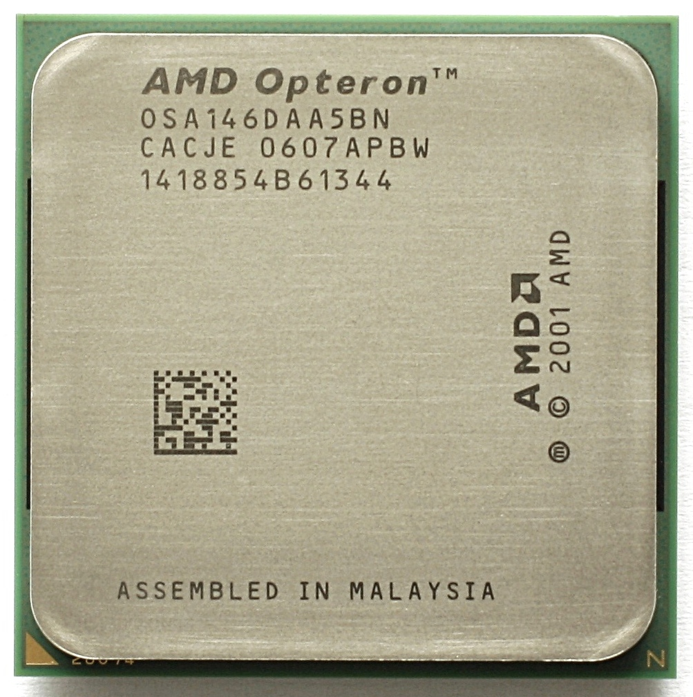 CPU AMD Opteron 146 Venus Socket 939.